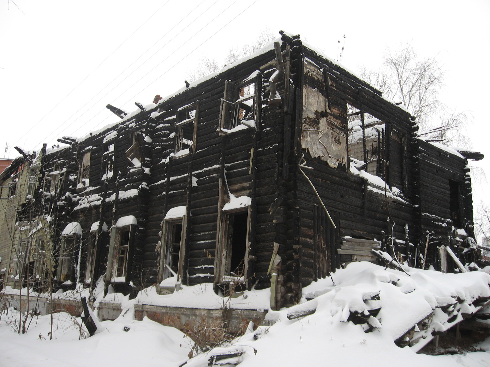 Journal lane (Ryazan)